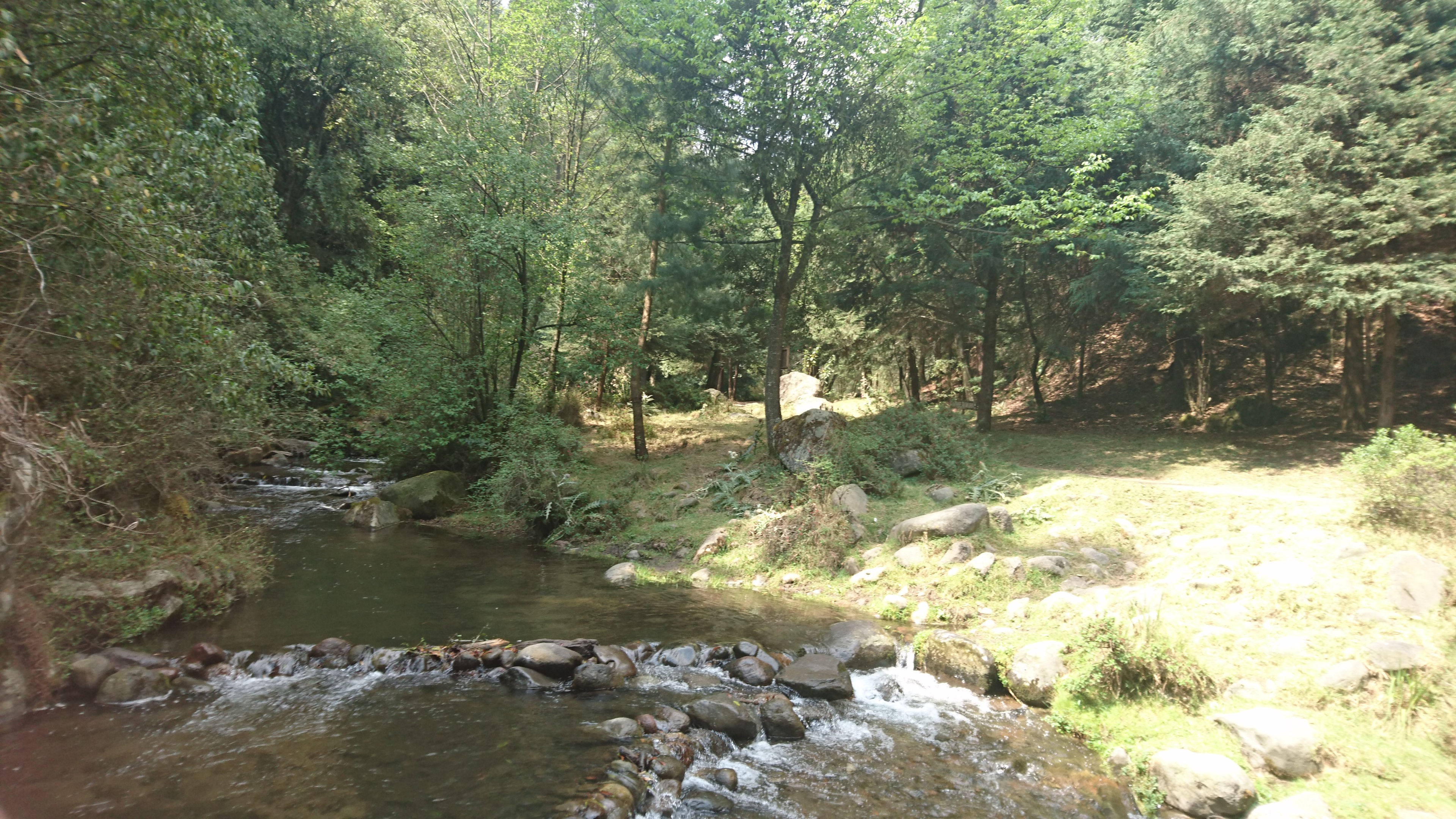 Vista desde el Segundo Dinamo